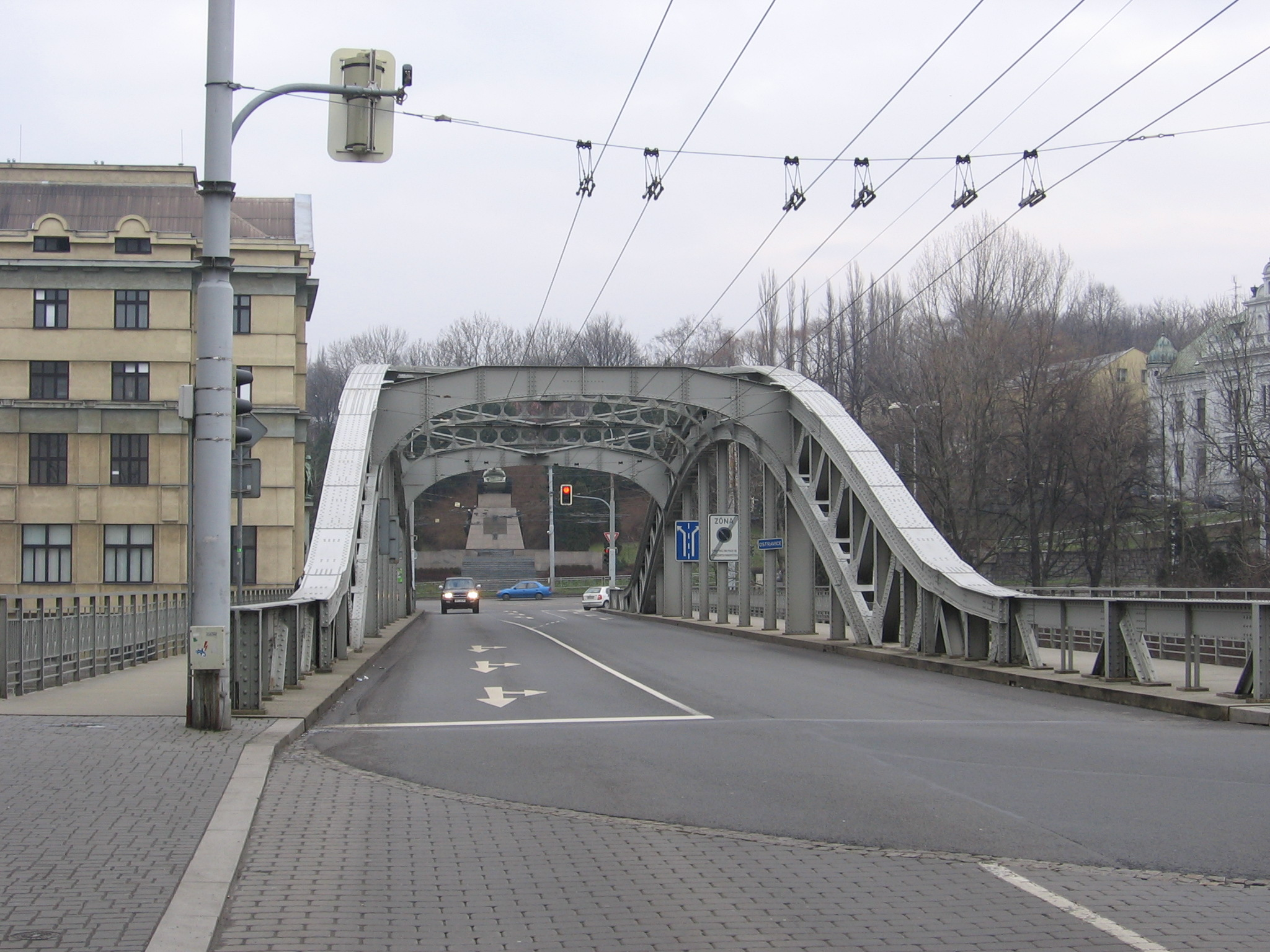 Miloš Sýkora Bridge in Ostrava (Czech Republic) - view from Moravská Ostrava